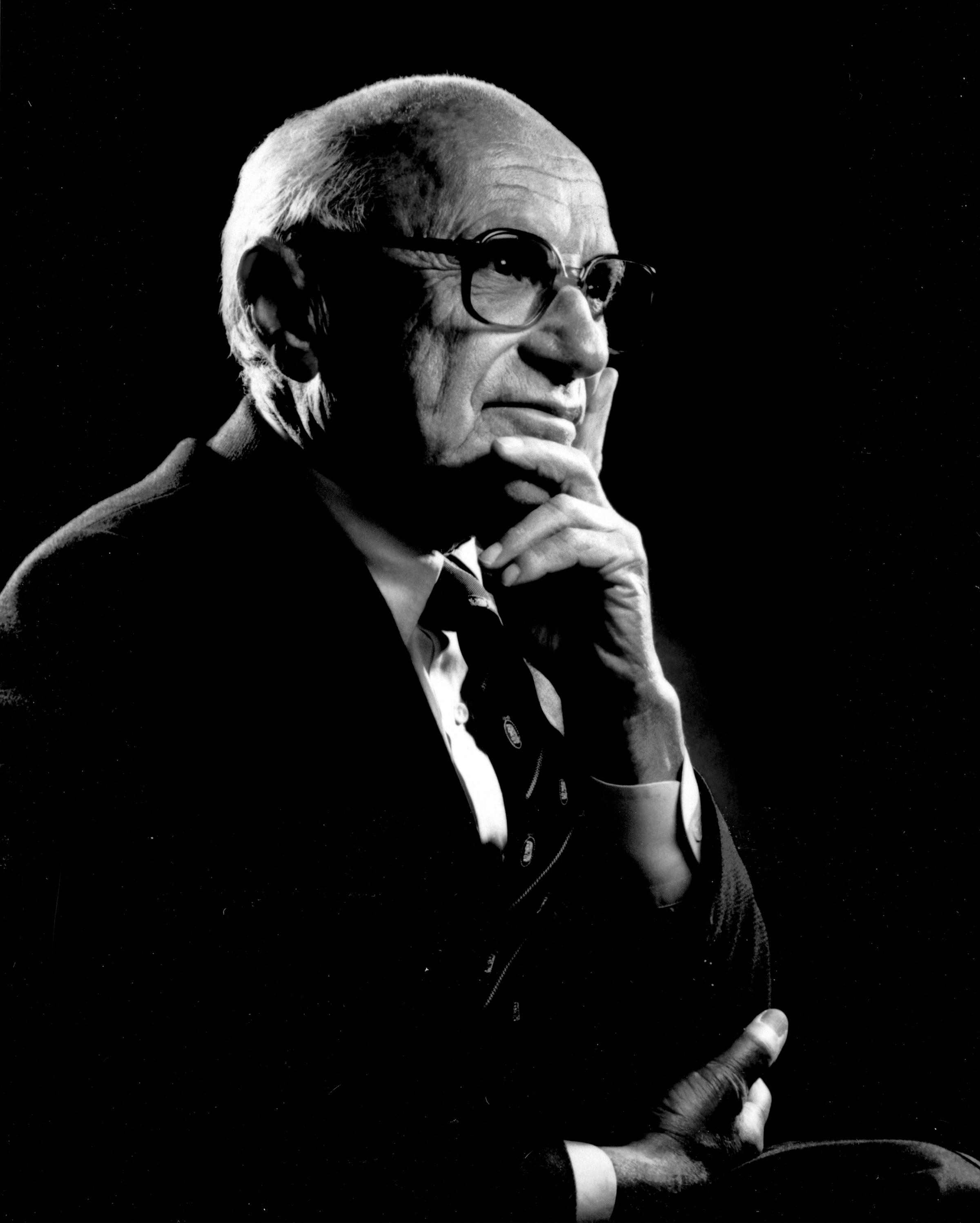 Portrait of Milton Friedman